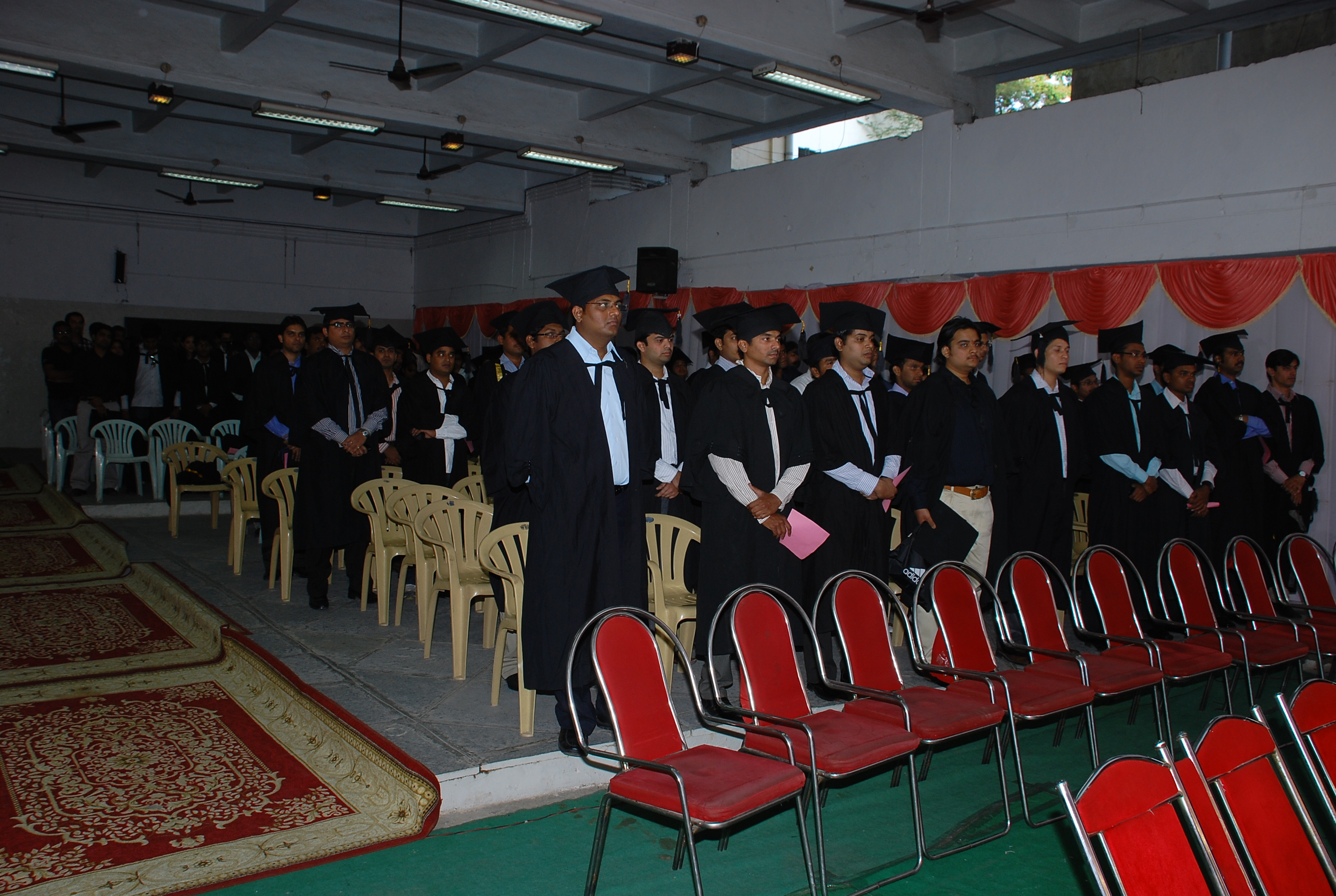 Sixth Convocation of Badruka Institute of Foreign Trade